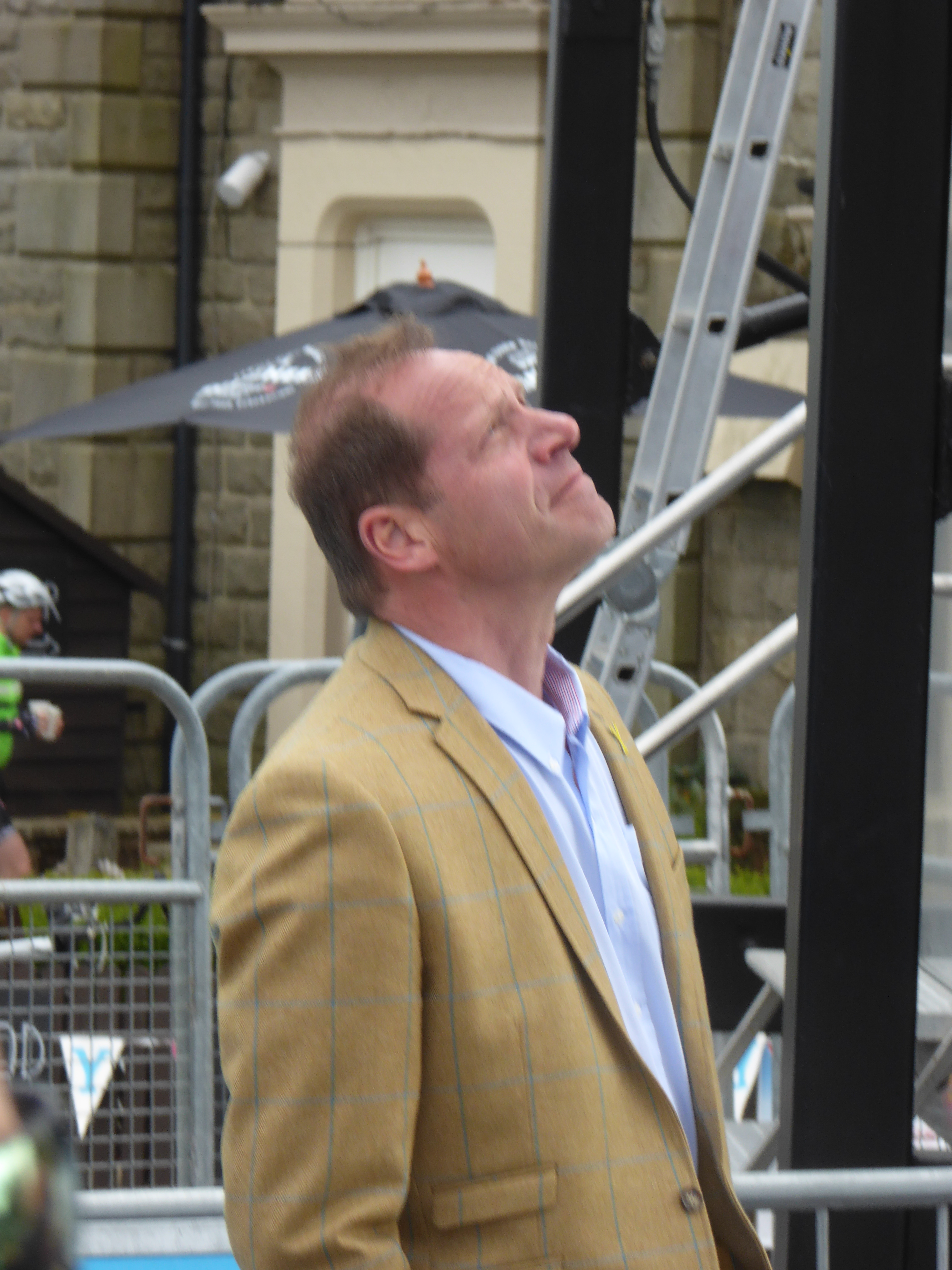 Race director Christian Prudhomme surveys the women's race action (on the screen above the finish line) at the 2018 Tour de Yorkshire.